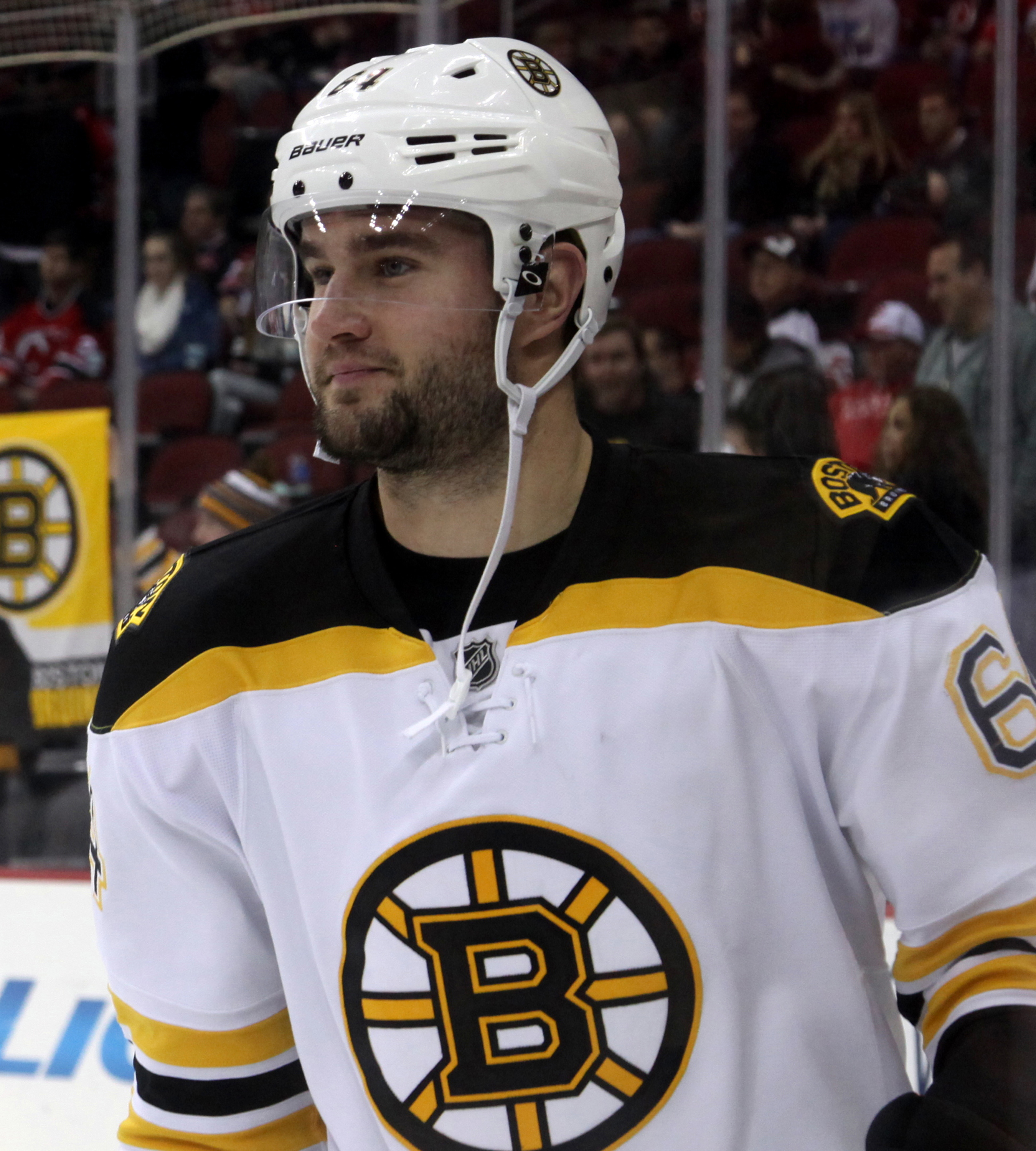 Randell in January 2016.